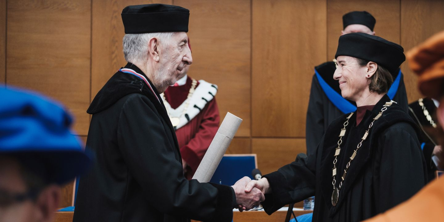 24th October 2019 - Hans Belting is receiving honorary doctorate from head of Department of classical studies Irena Radová.